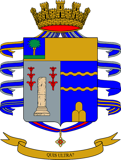 Coat of Arms of the 11° Bersaglieri Regiment; Italian Army.